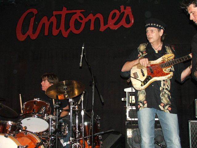 ARC Angels peforming at Antone's in Austin, Texas (2006). Chris Layton and Tommy Shannon (L - R). Photo by Ron Baker.